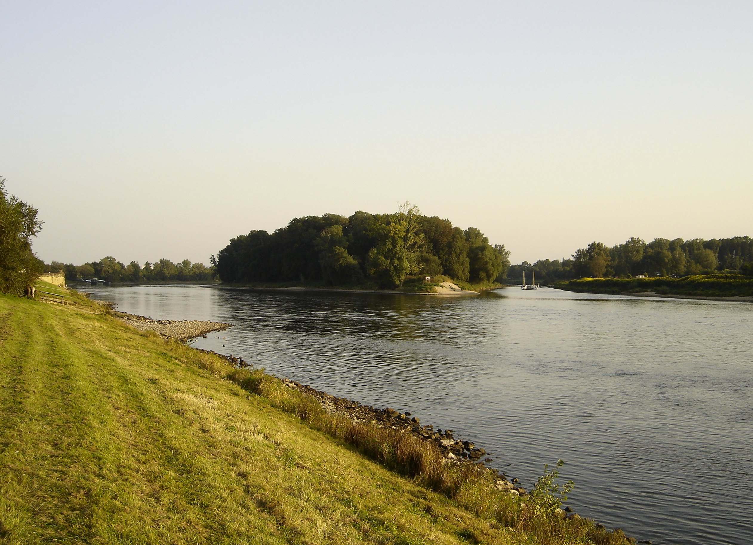 Island of Pillnitz in the river Elbe